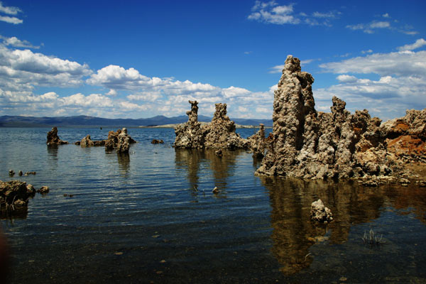 Reflections of Tufa columns on the water of Mono Lake, eastern California.703_monoReflections_600